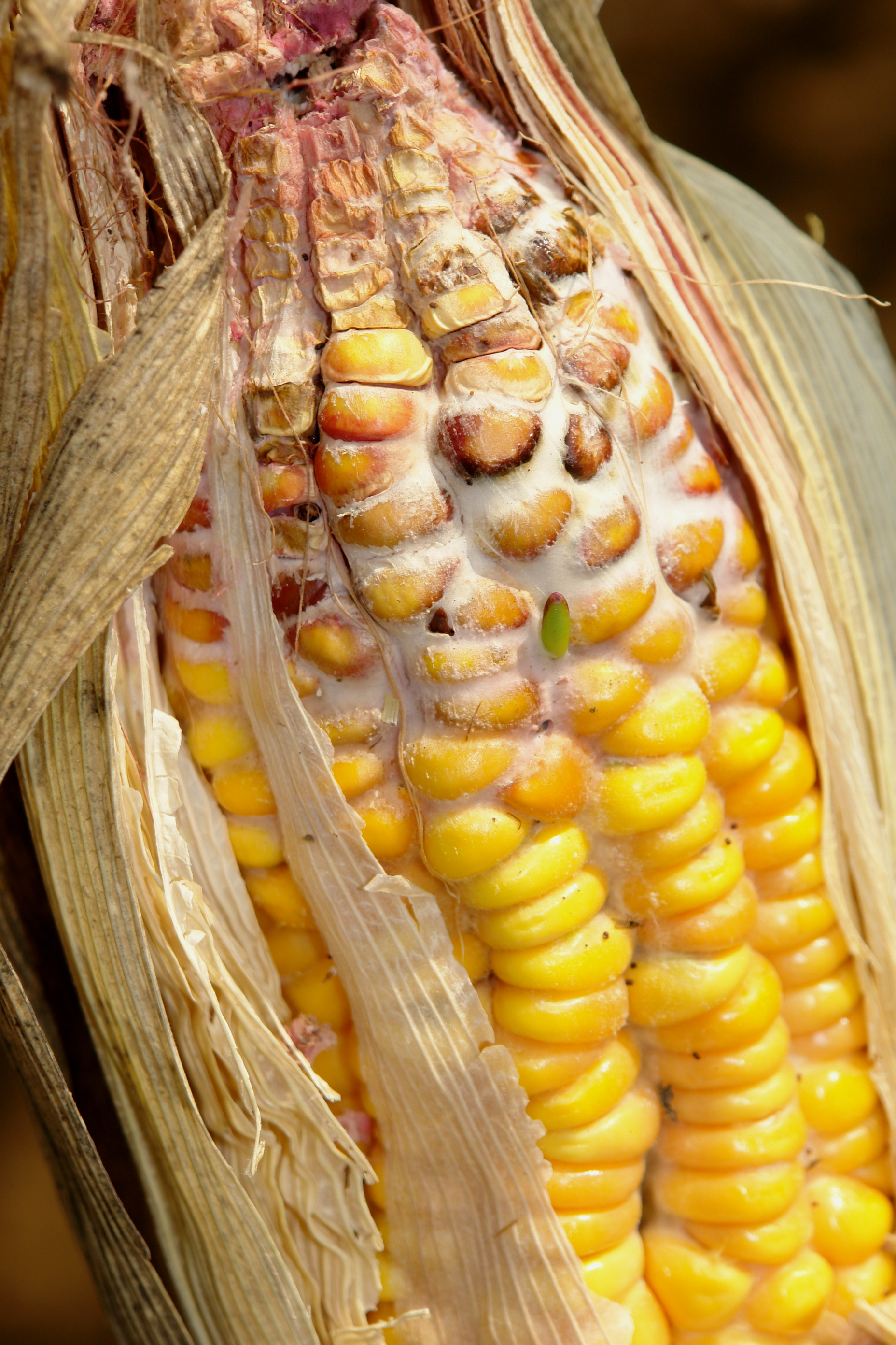 Gibberella ear rot (Gibberella zeae) on Corn (Zea mays) at Waimea, Hawaii.